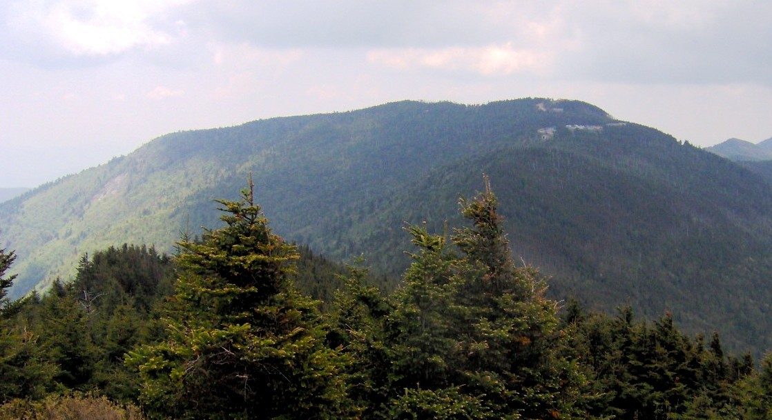 Mount Mitchell, viewed from Mount Craig, in the Black Mountains of the U.S. state of North Carolina.